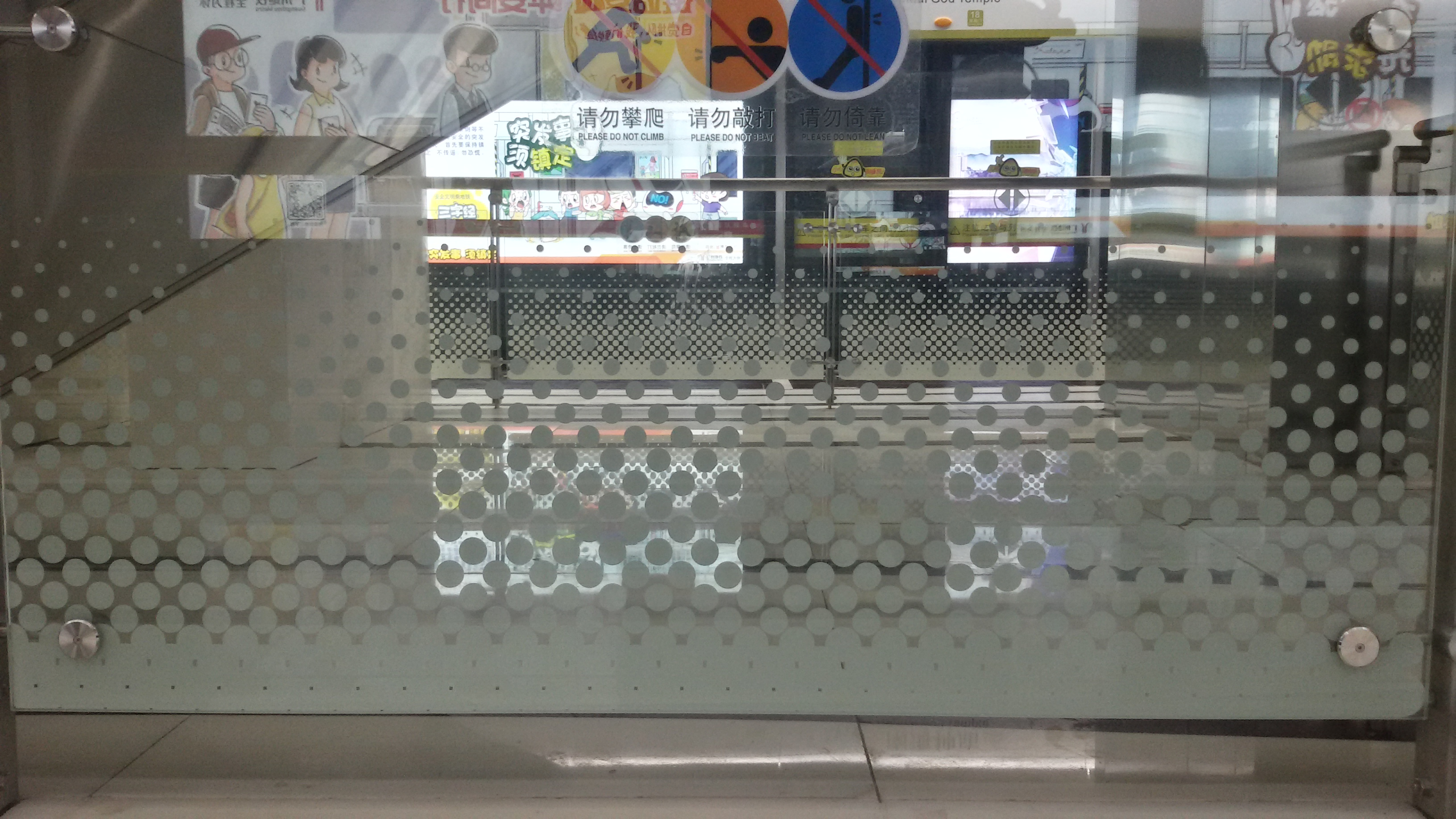 Decoration on the glass handrail at Nanhai God Temple Station in Guangzhou Metro.